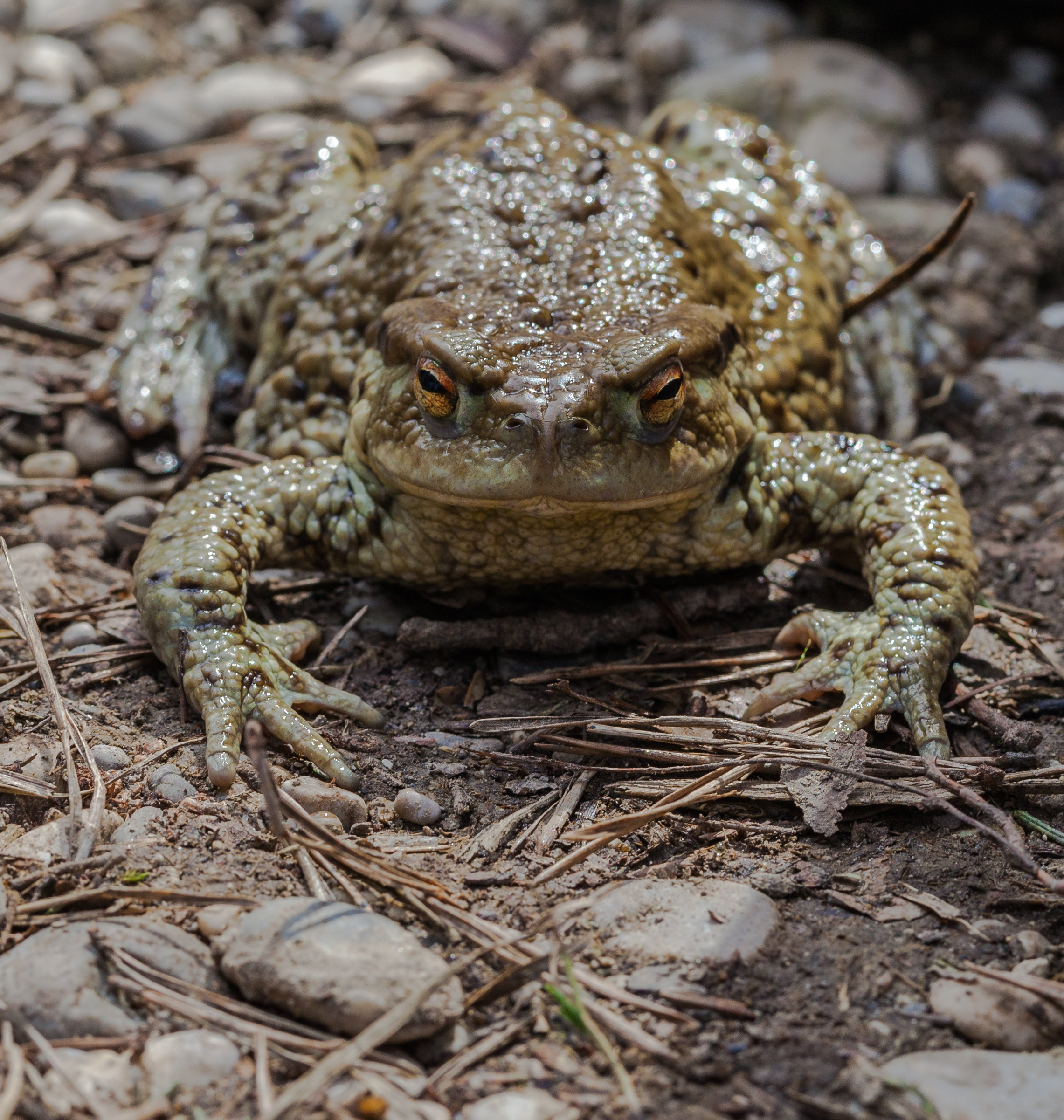 Common toad (Bufo bufo), Hartelholz, Munich, Germany